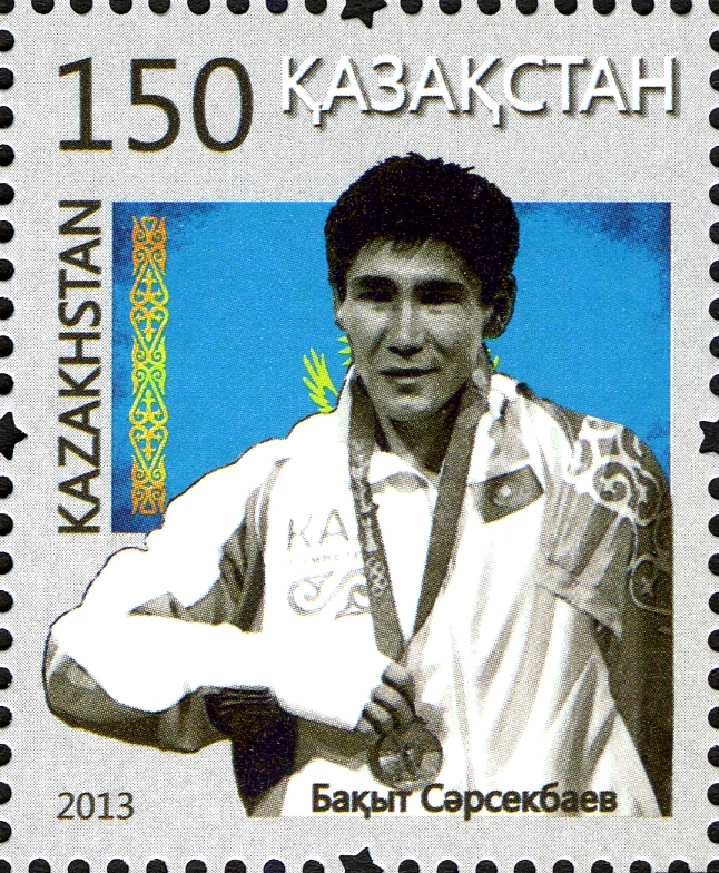 Stamps of Kazakhstan, 2013